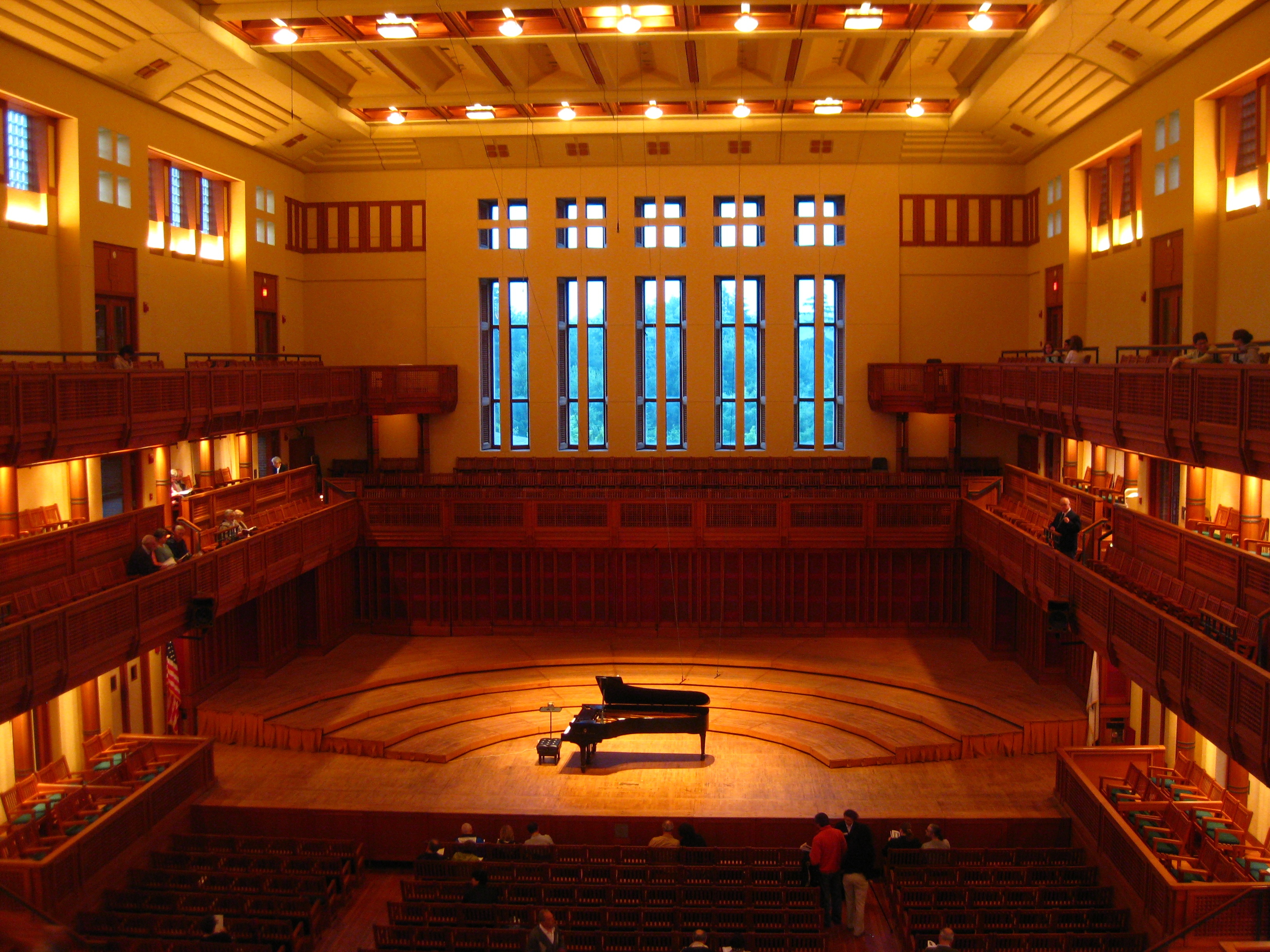 Ozawa Hall at Tanglewood before a concert in early July 2009.